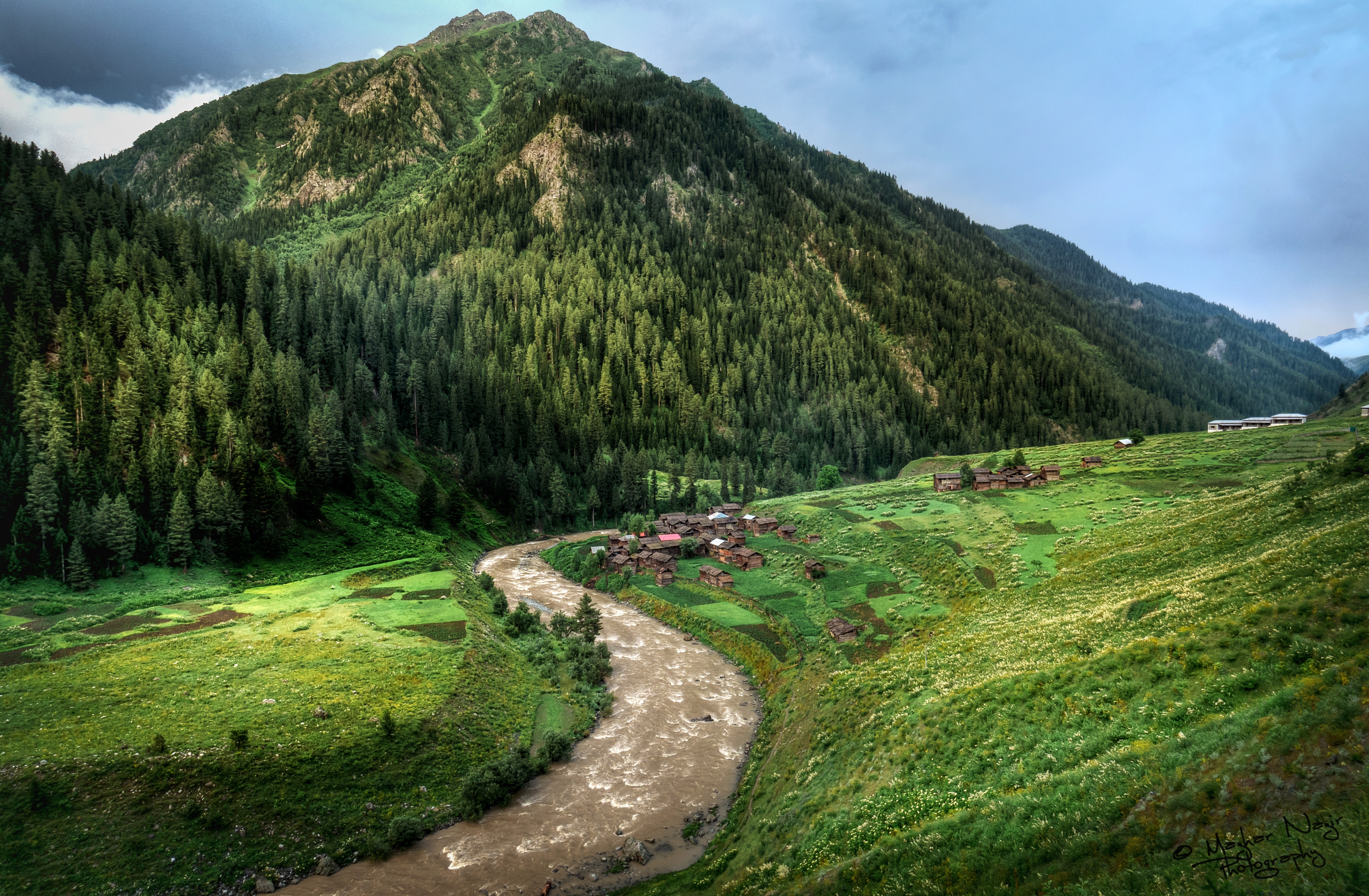 Astore District, Gilgit-Baltistan, Pakistan